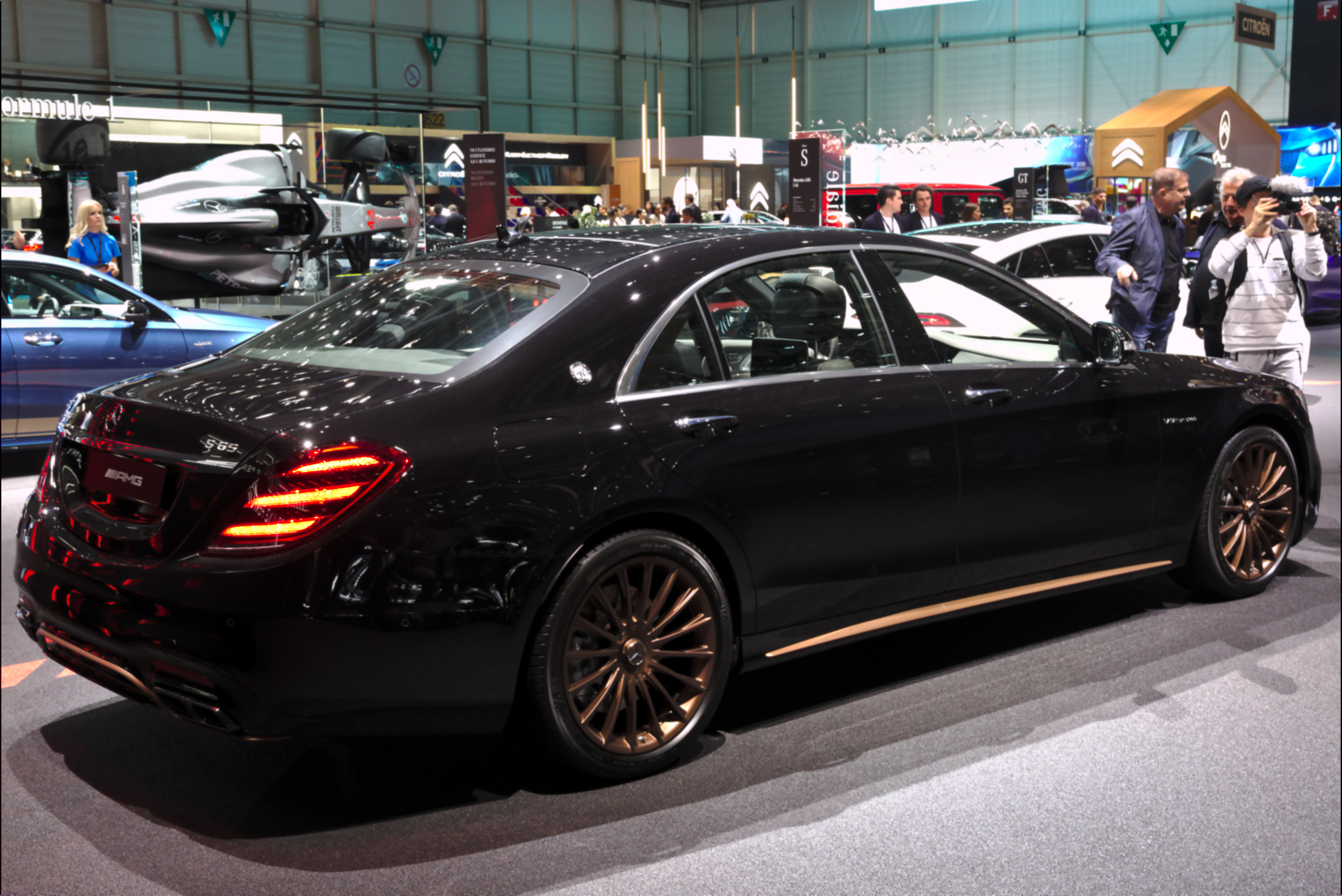 Mercedes-AMG S 65 Final Edition at Geneva Motor Show 2019